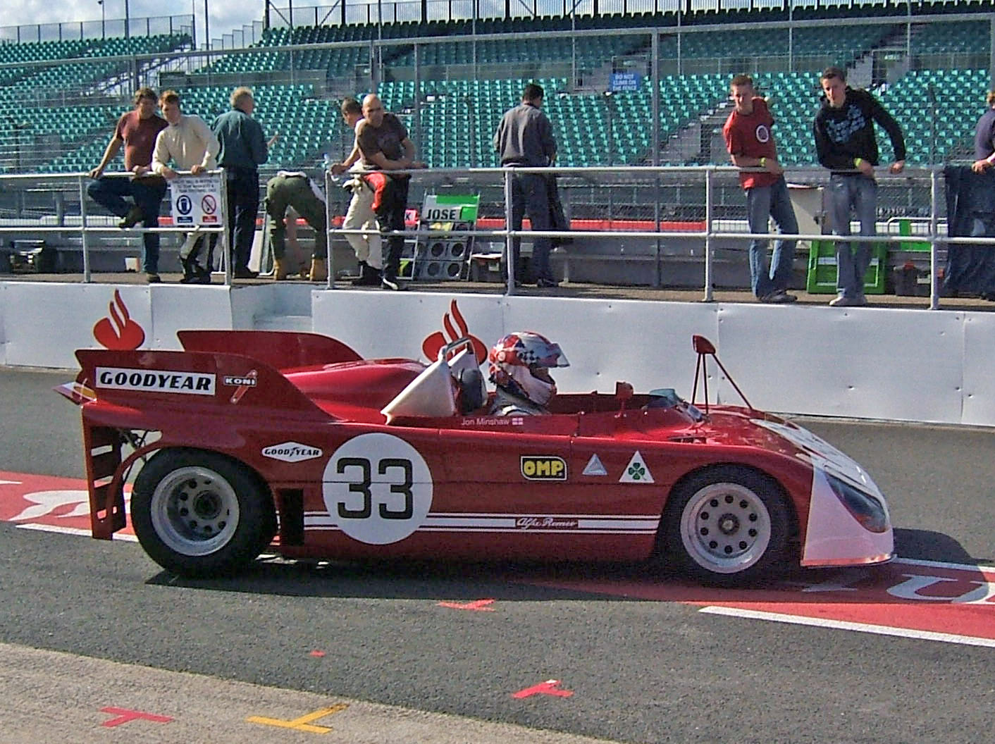 An Alfa Romeo 33/3 leaves the pit garages at Silverstone, July 2007